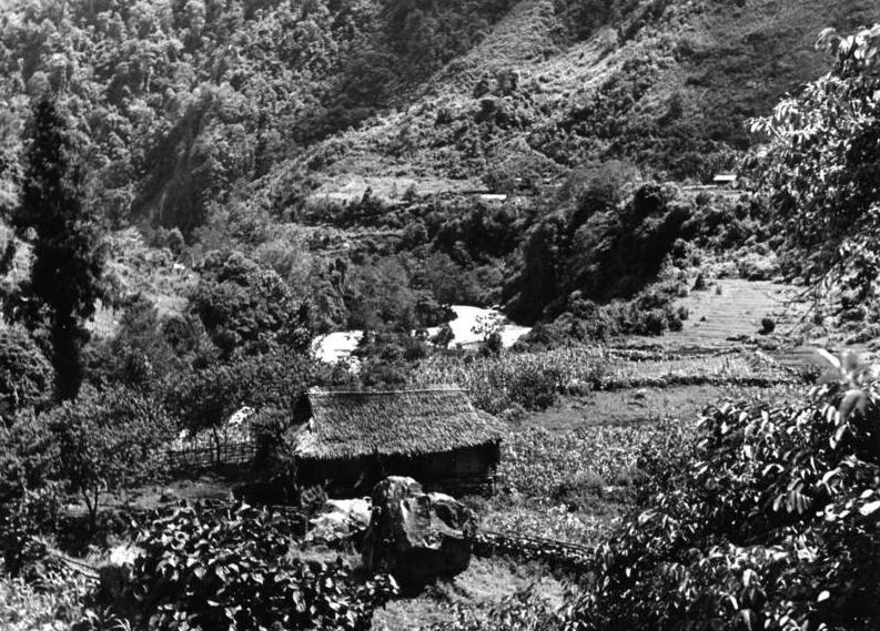 Tschungtang (Chungtang), Leptschahäuser Information added by Wikimedia users.